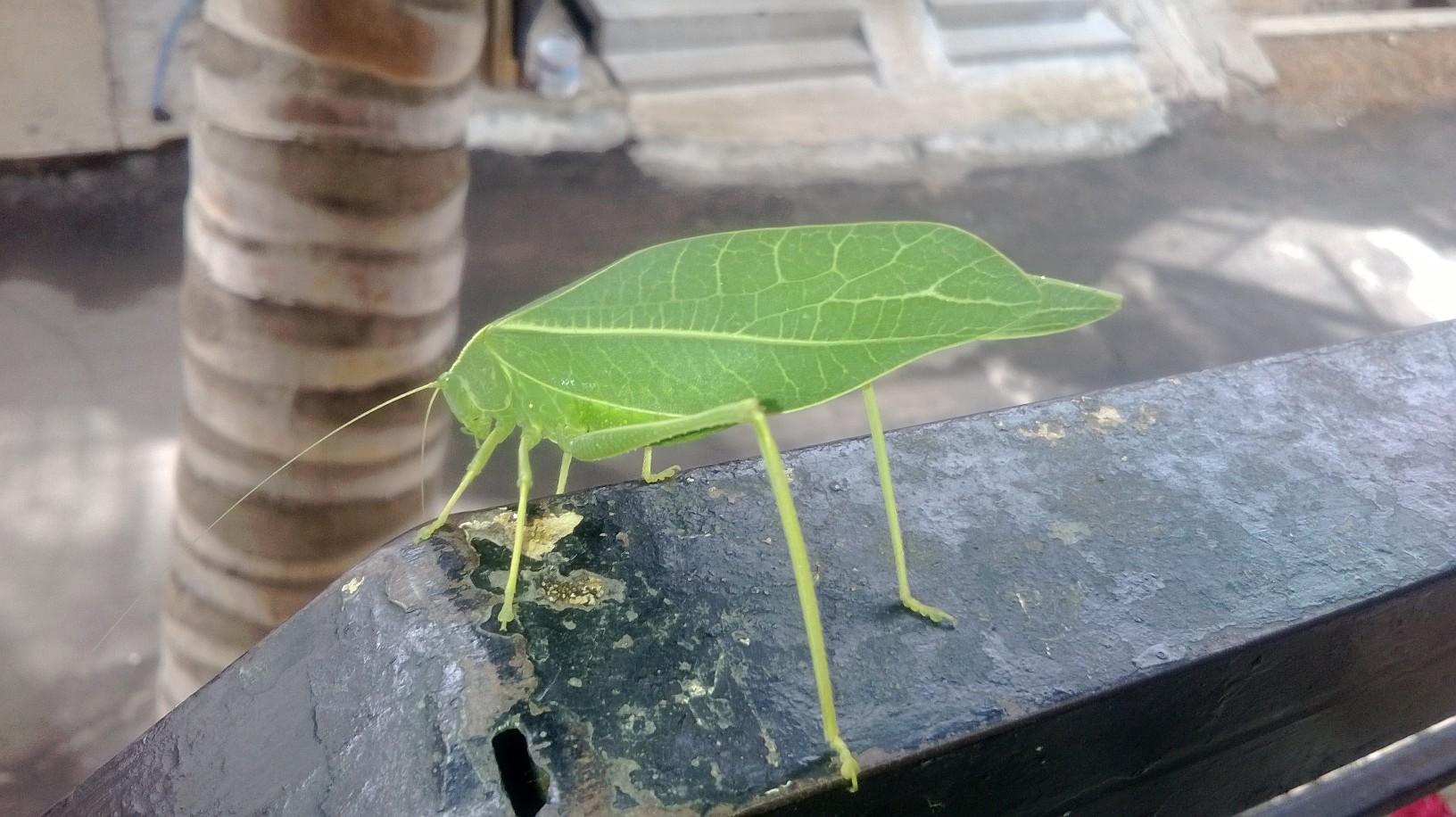 Leaf shaped grasshopper